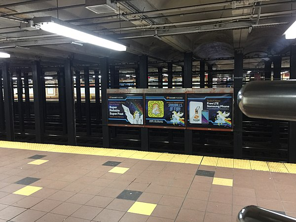 Allegheny station